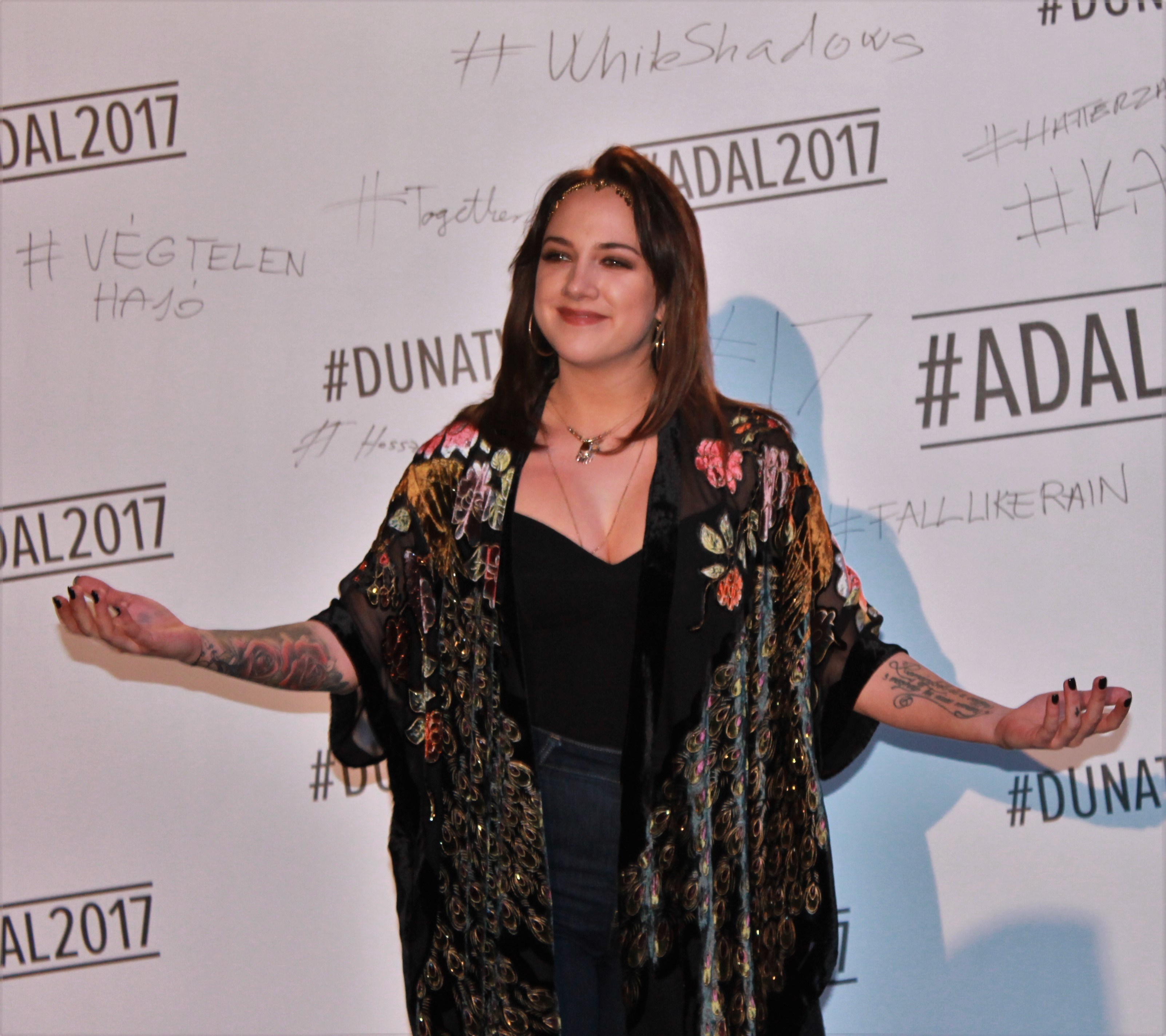 A Dal 2017 participant: Gabi Tóth